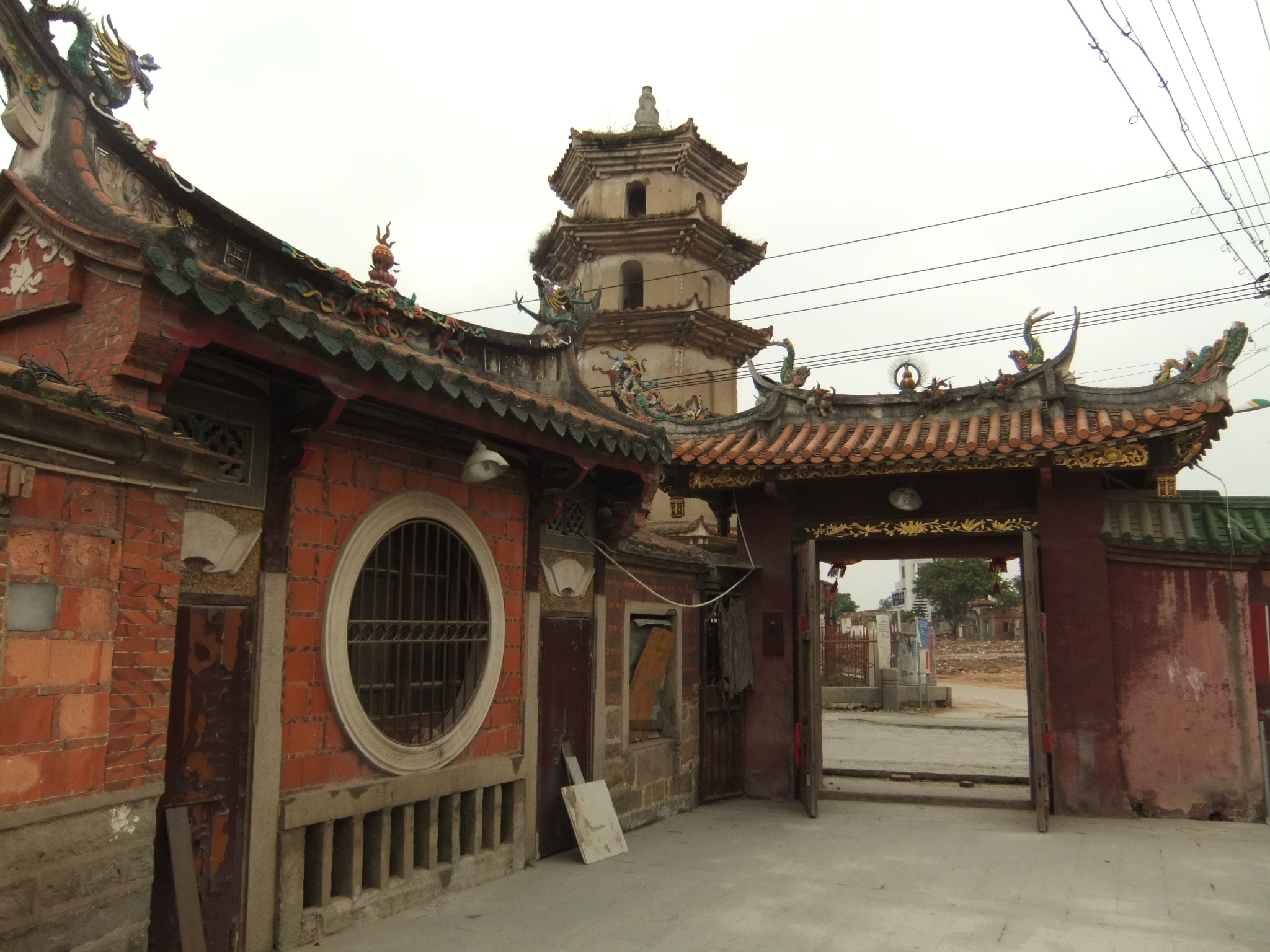 Shuixin Zen Temple (Shuixin Chan Si) in Anhai Town, near the eastern end of the famous Anping Bridge. The area to the east of the temple has recently been cleared, the old-fashioned neighborhood that used to be there being comletely demolished, presumably for the sake of new development. Just a single pagoda stands in that empty expanse now.